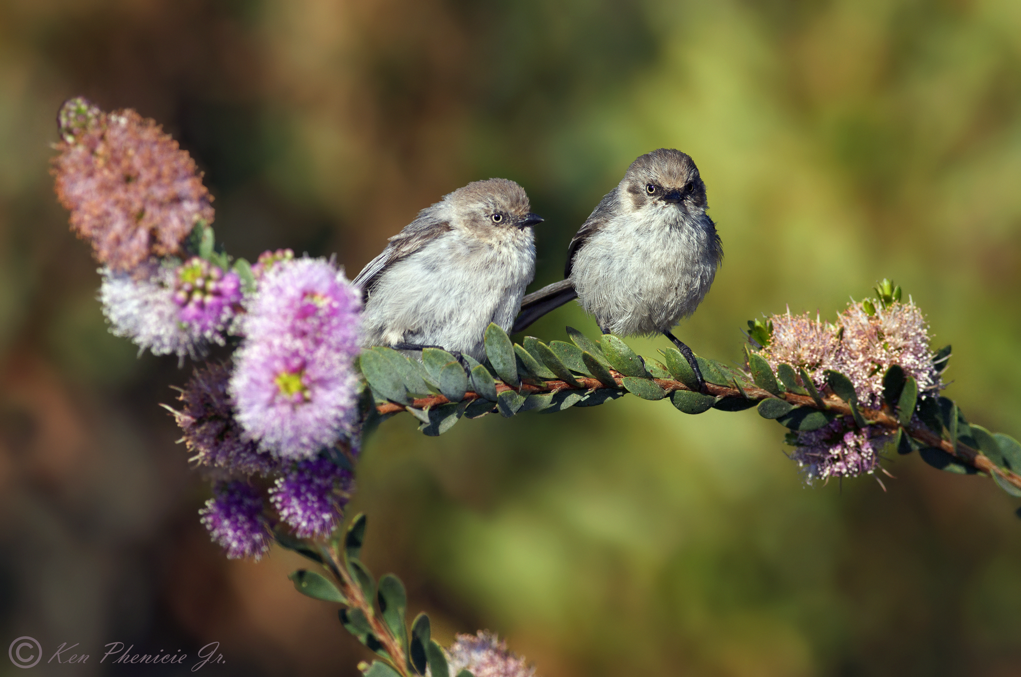 Common Bushtit Psaltriparus minimus minimus, females, Shoreline Lake, Palo Alto, California